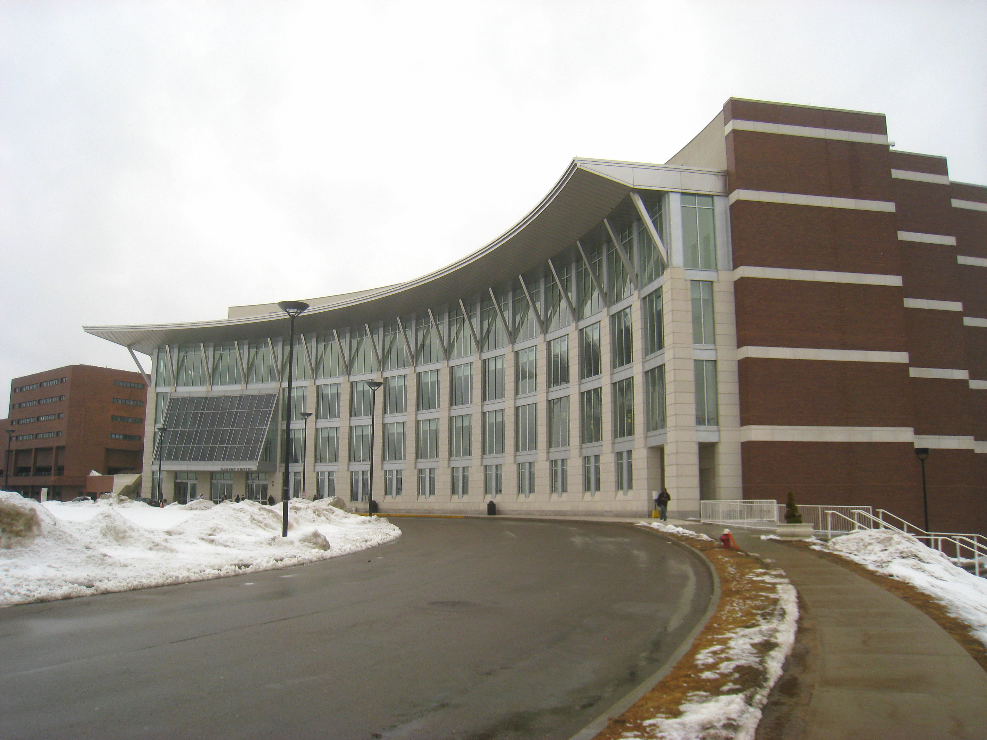 University of Massachusetts Boston, Boston, Massachusetts, USA.